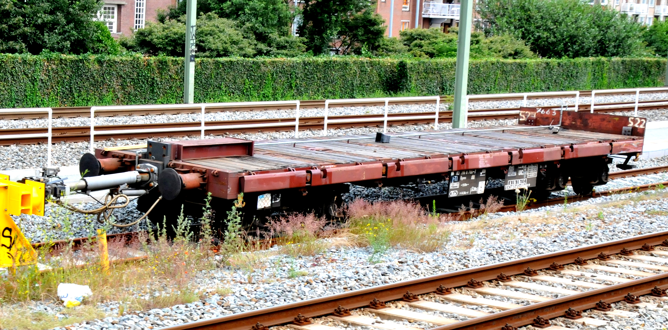 coupling car for the V250 train in Amsterdam. UIC-number: 86 83 396 8766 -7 I-TI.